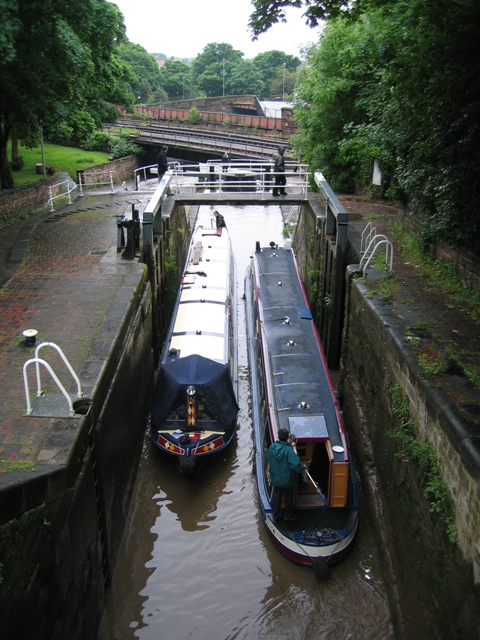 Passing through the Northgate flight of locks In this photo the water level in the middle and bottom lock has been equalised allowing the descending narrowboat on the right to pass the ascending one.